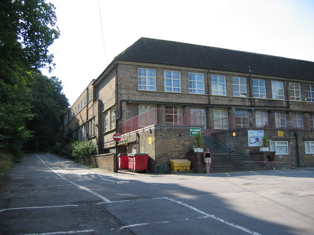 Former Abbeydale Grange Upper School Now Abbeydale college.